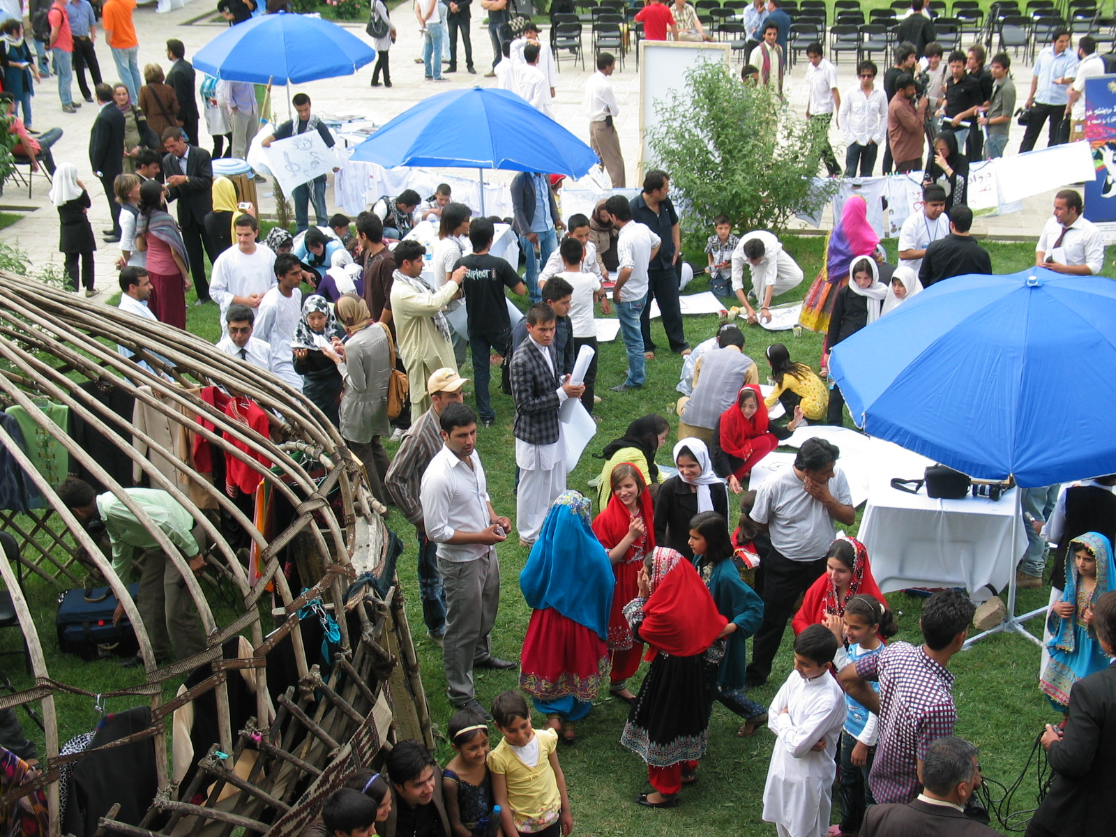 Afghan Youth Voices 011